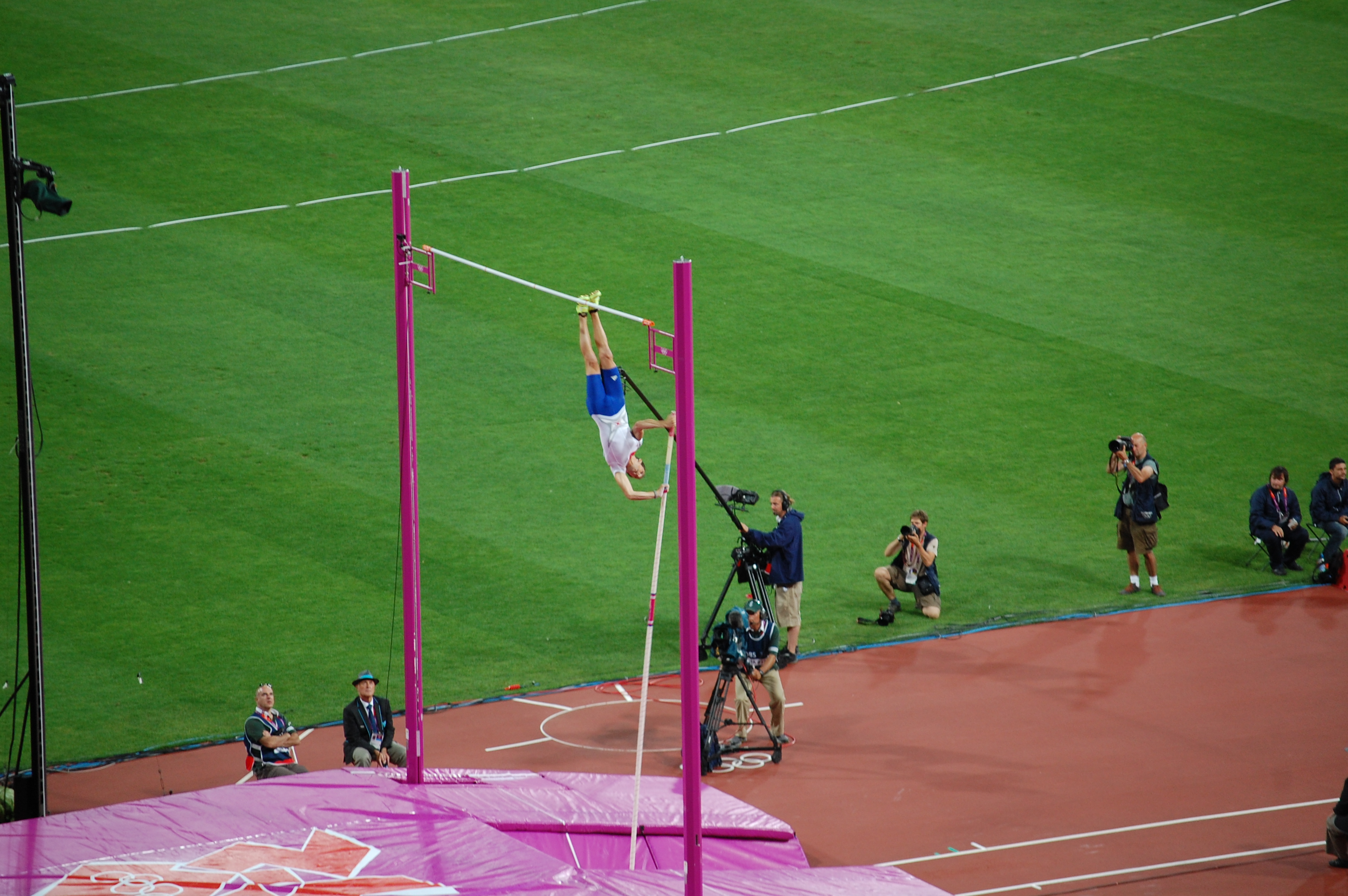 Renaud Lavillenie, pole vault winner, fails to break the Olympic record